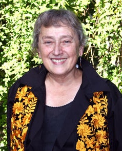 Lynn Margulis while attending the symposium "150 años de Darwin" ("150 years of Darwin") organized by the Ramón Areces Foundation in Madrid, November 2009.